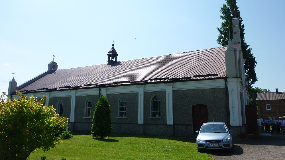 Old Catholic Mariavite Church in Leszno (n. Warsaw)